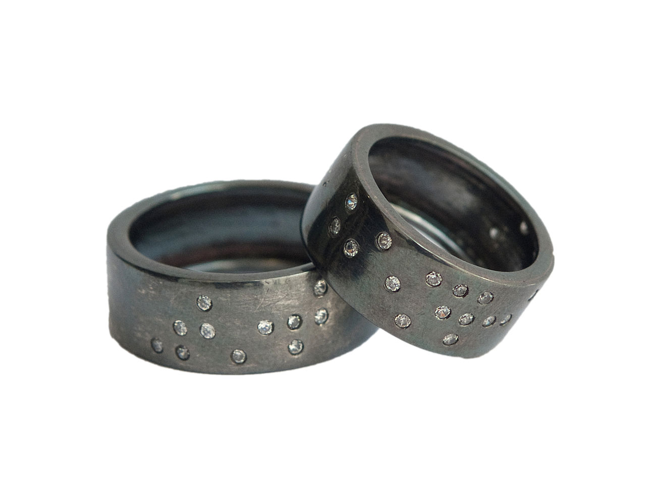 Wedding rings with Braille inscriptions